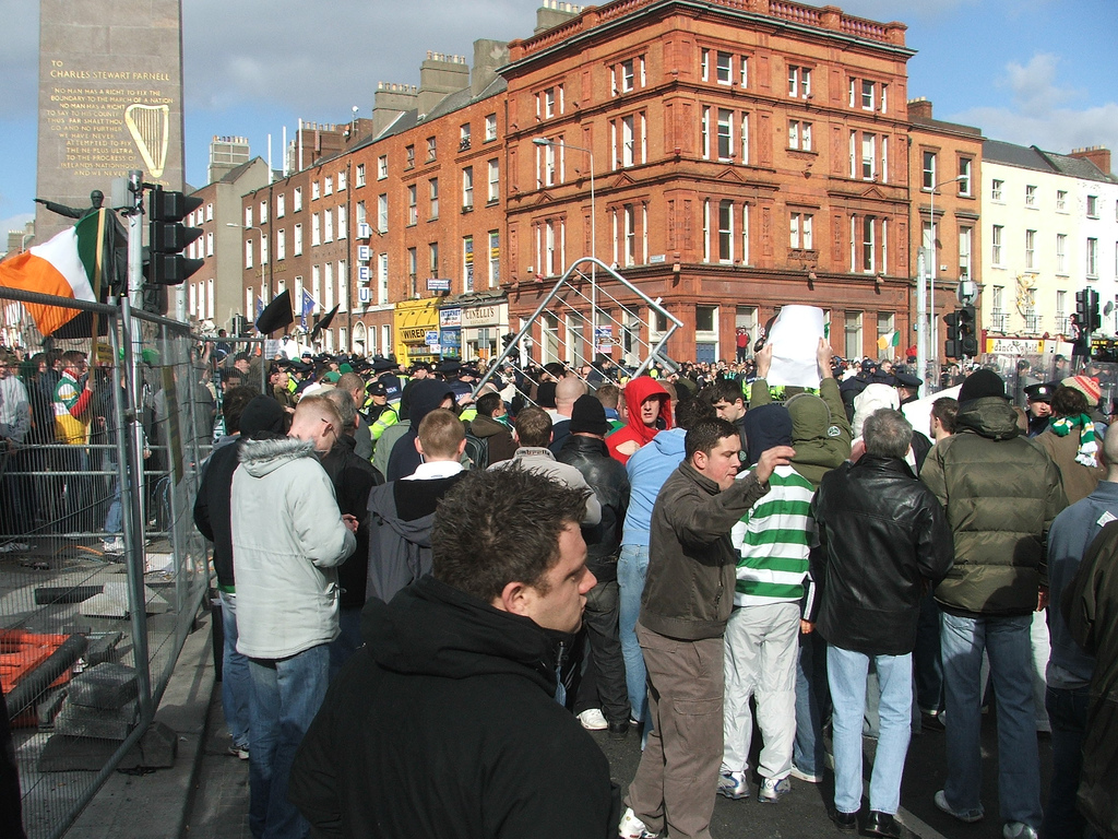 Republican protesters toss metal barricade during Dublin riots Author: Flickr user jaqian